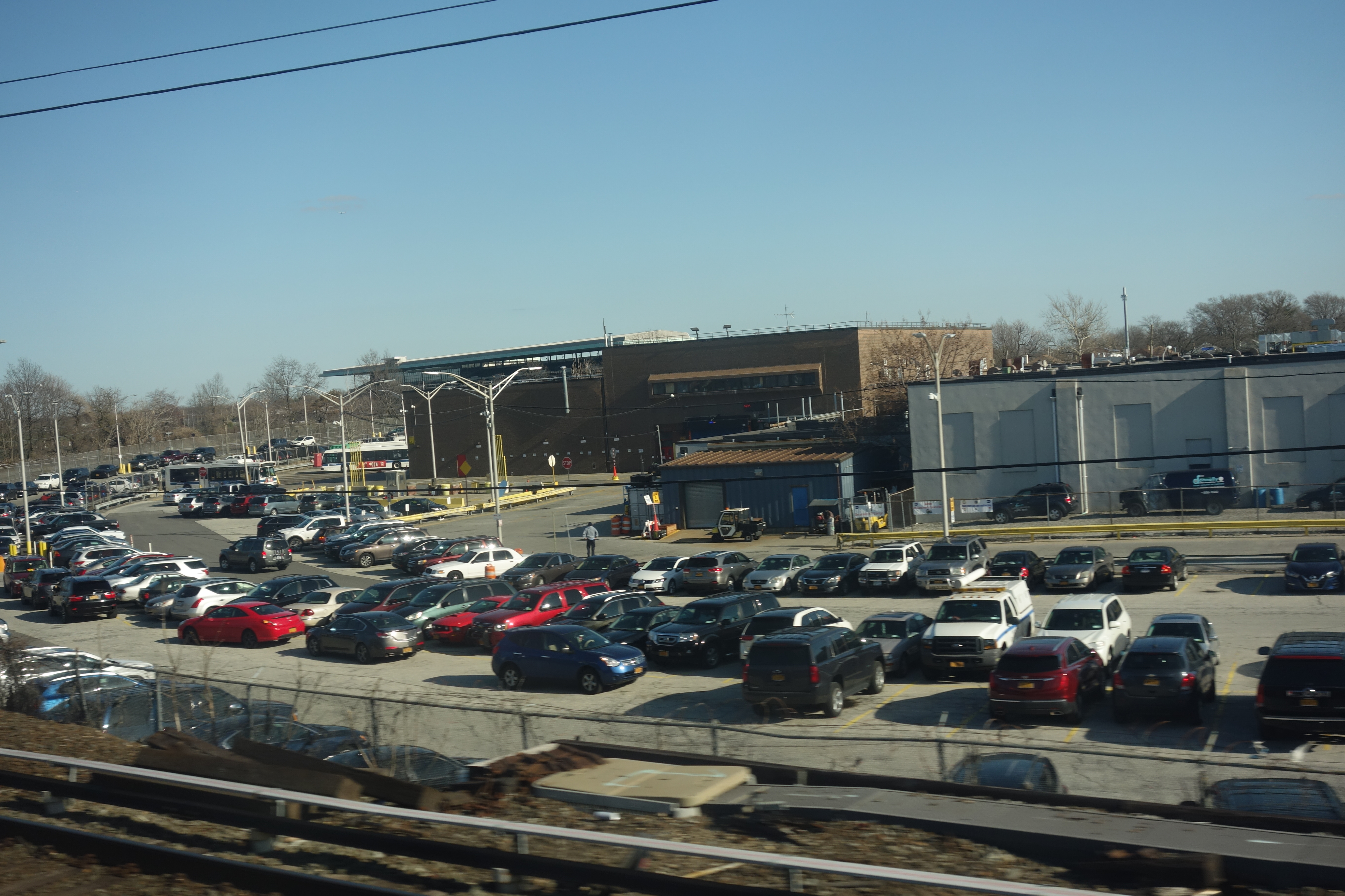 Looking south at the MTA's Queens Village Bus Depot from an eastbound LIRR train, at 222nd Street and 97th Avenue south of Jamaica Avenue in Queens Village, Queens. In the distance is Belmont Park in nearby Hempstead, Long Island.